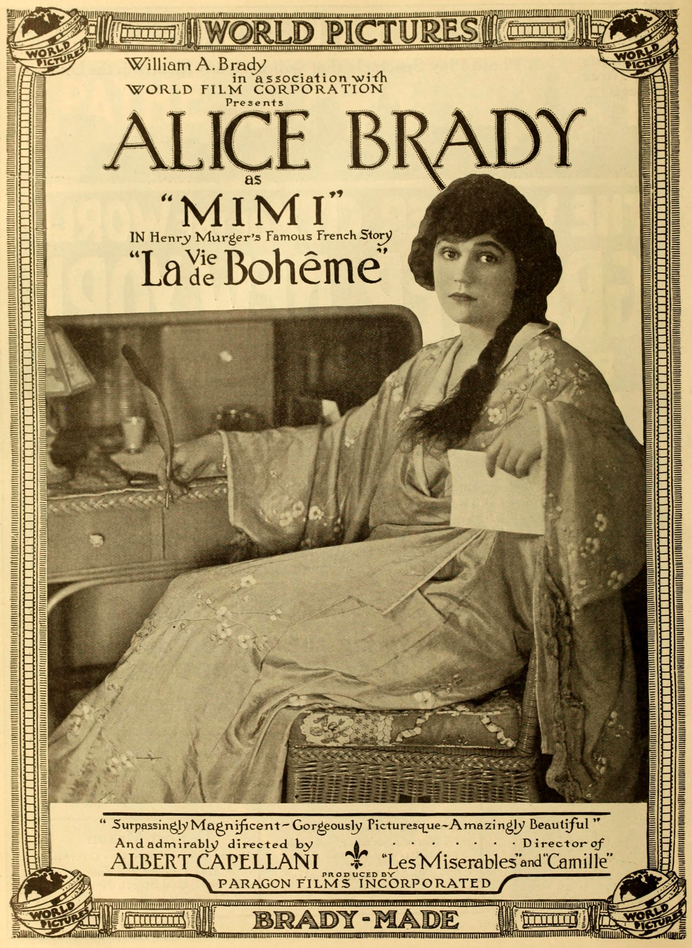 Advertisement in The Moving Picture World for the film La Vie de Bohême (1916).